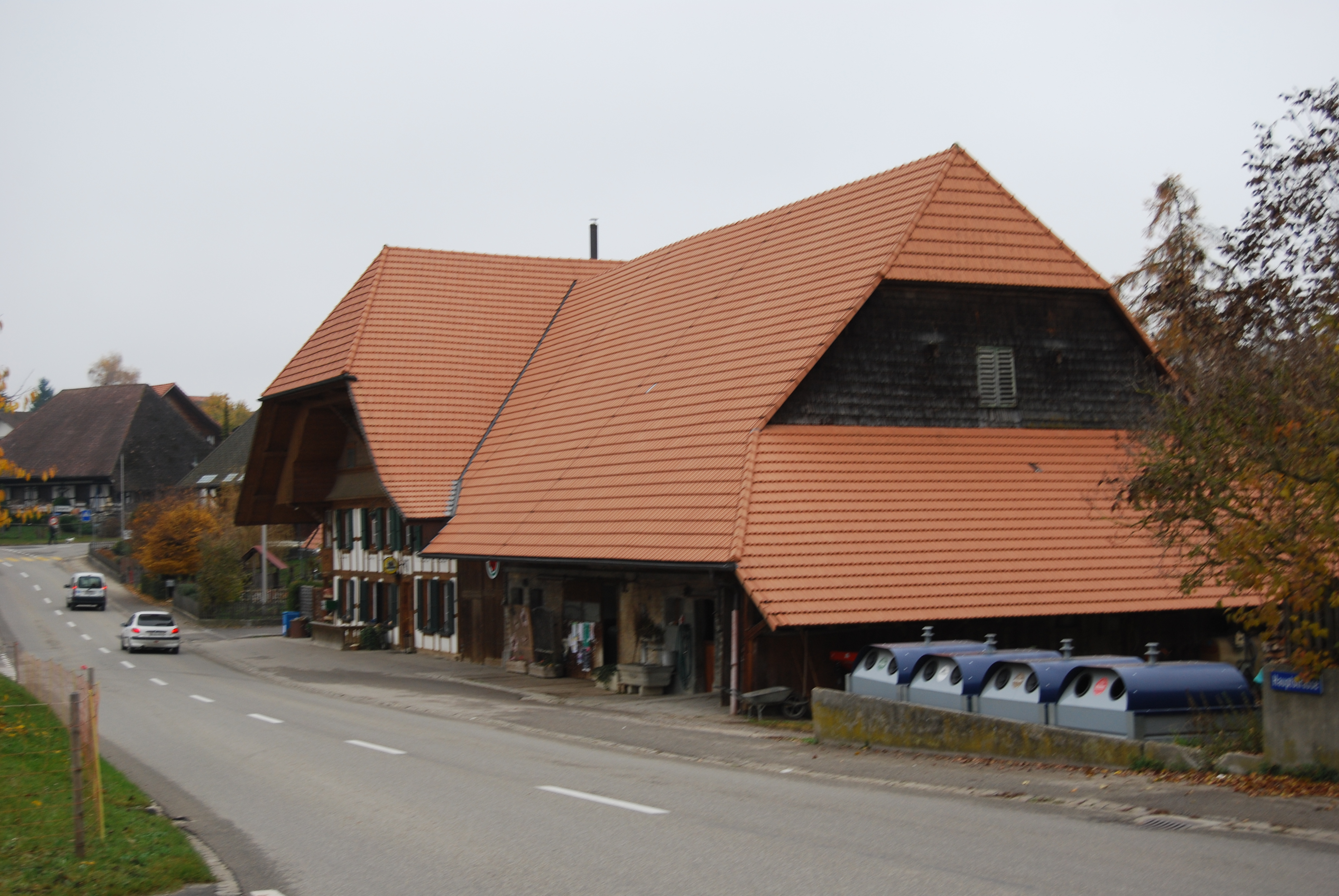 Zuzwil, canton of Bern, SwitzerlandEsperanto: Zuzwil, Kantono Berno, Svislando